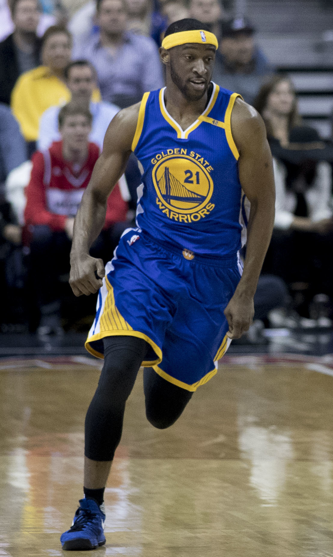 Warriors at Wizards 2/28/17